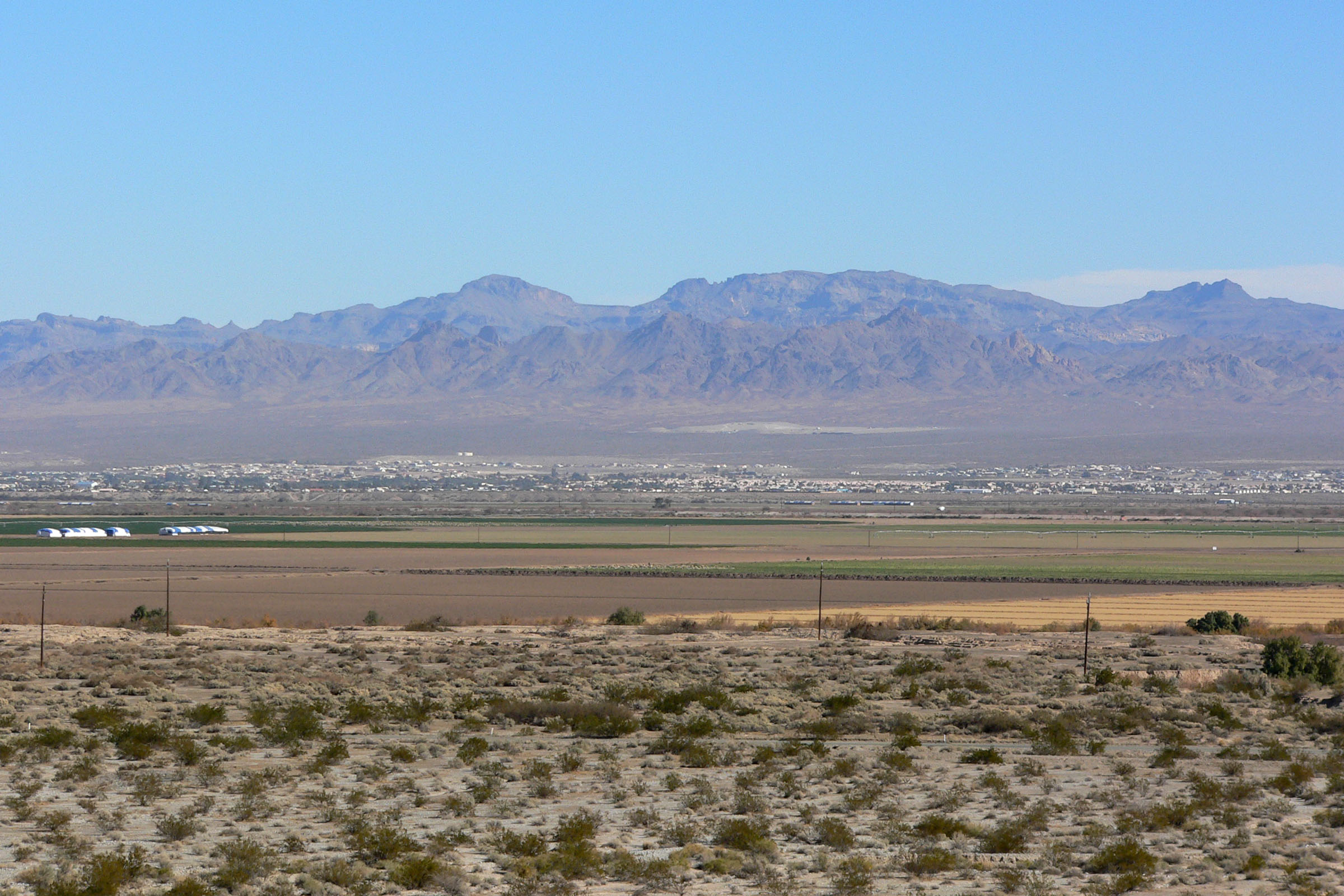 View looking east across Mohave Valley. The Colorado River is visible only as a grayish line of vegetation, and the Black Mountains are on the horizon.